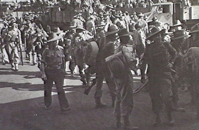 Troops from the Australian 24th Infantry Brigade, including the 2/43rd Infantry Battalion, embarking at Cairns, 8 August 1943, bound for New Guinea.